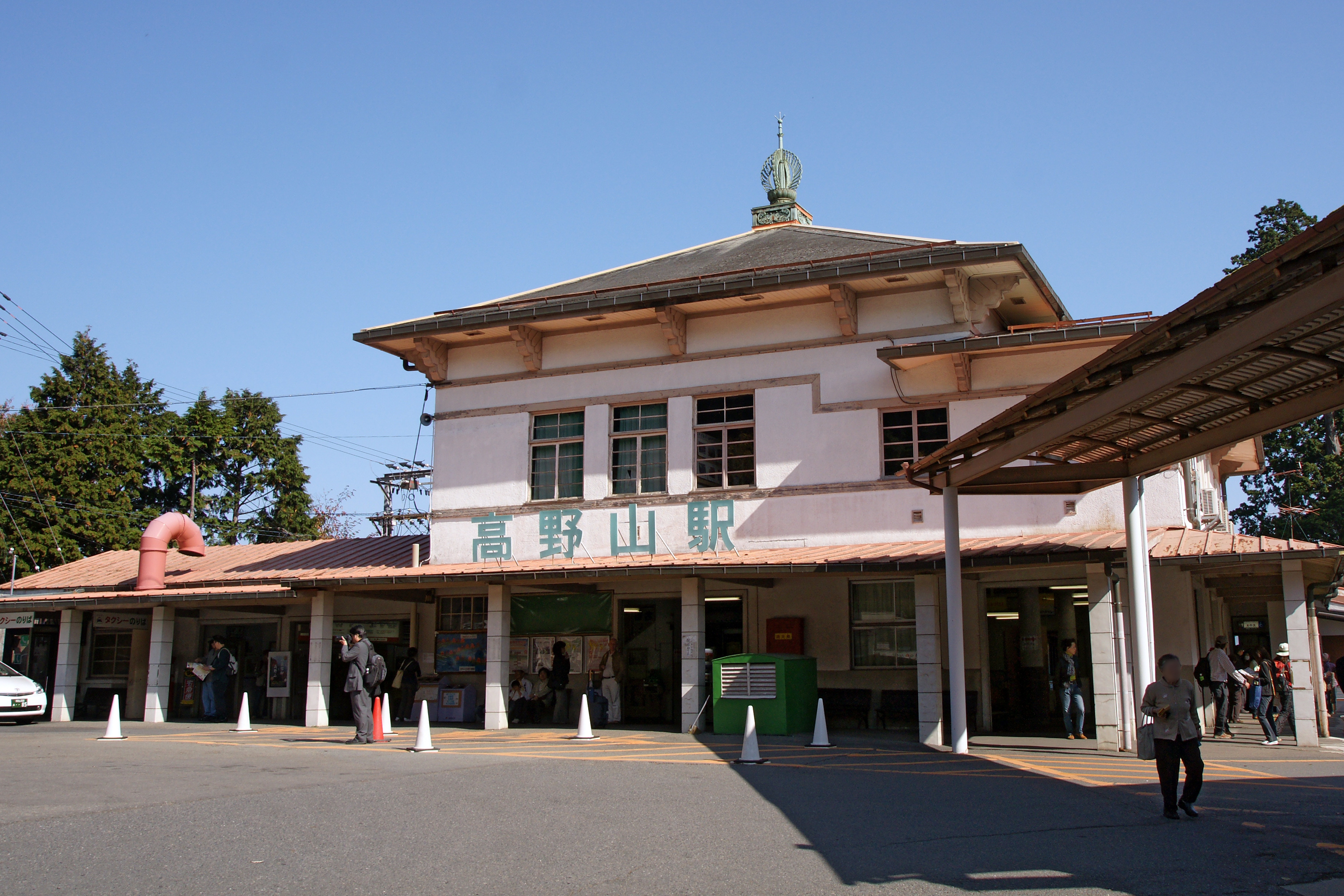 Koyasan Station on Mount Kōya in Koya, Wakayama prefecture, Japan.